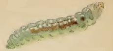 Stainton’s Natural History of the Tineina (1855–1873): Stigmella minusculella